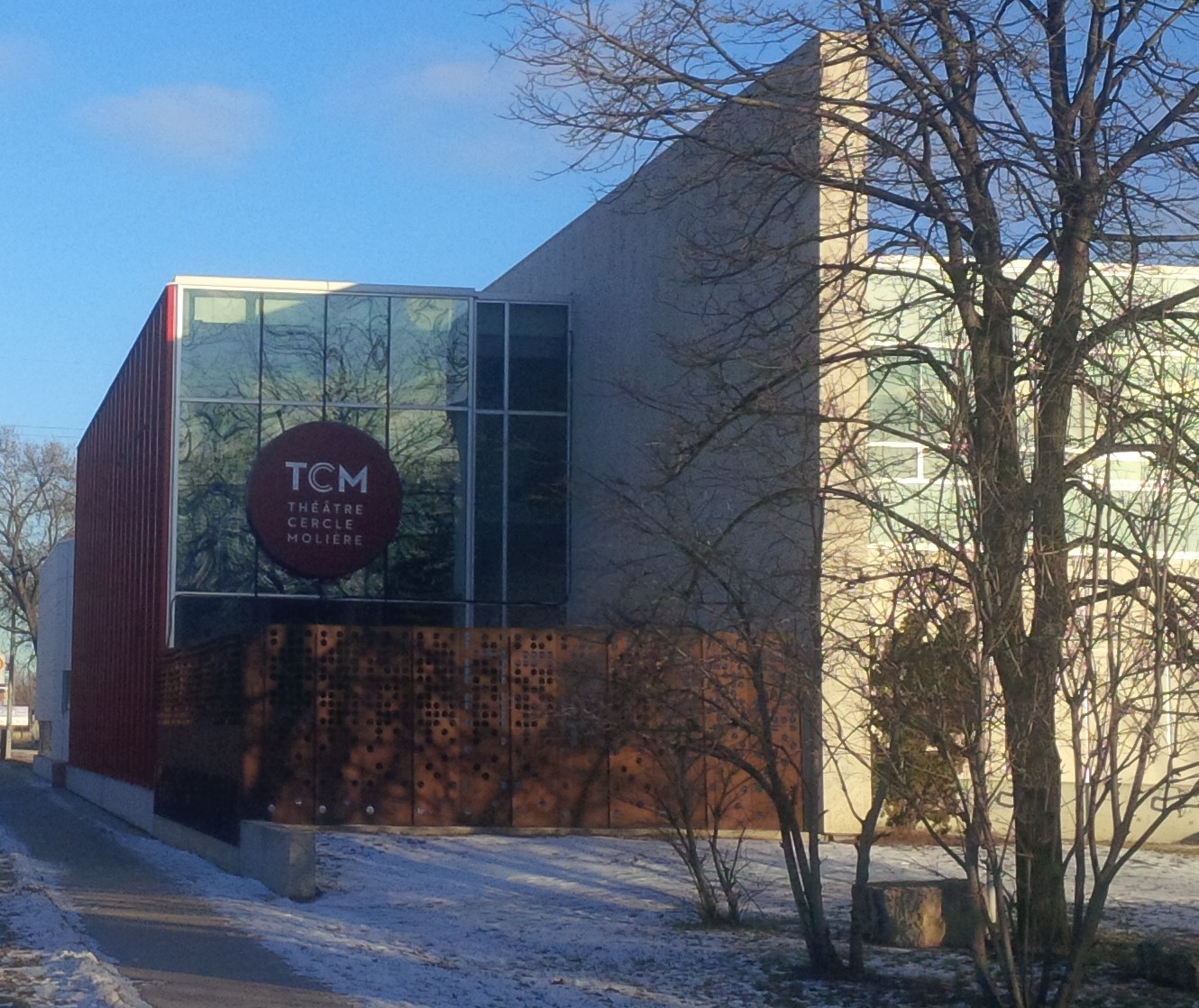 St. Boniface based Théâtre Cercle Molière, part of the CCFM cultural building complex.